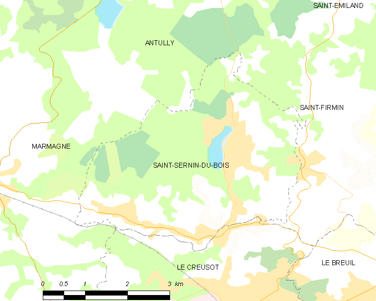 Map of French municipality